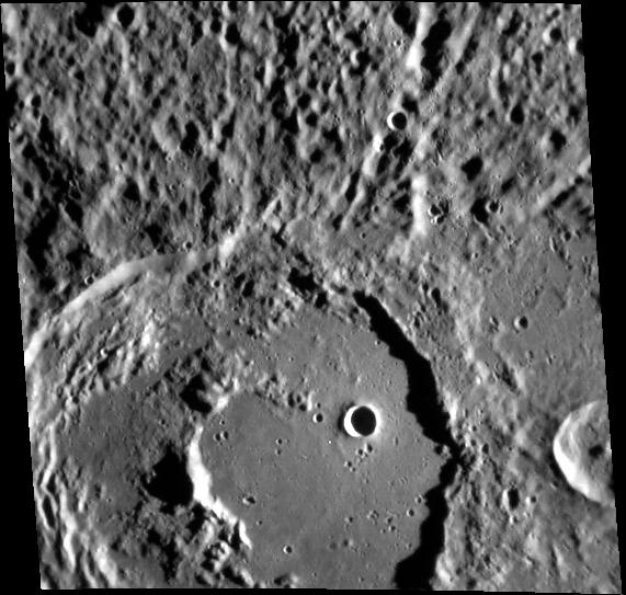 Kalidasa in Detail This image, taken with the Narrow Angle Camera (NAC), gives us a close-up look at the crater Kālidāsā, named for the renowned classical Sanskrit writer Kālidāsa. It is likely that after Kālidāsā crater formed, a smaller impact created a second crater and destroyed part of Kalidasa's central peak. The low elevation areas in both craters were subsequently flooded with volcanic material, creating smooth plains on which light cratering has continued.